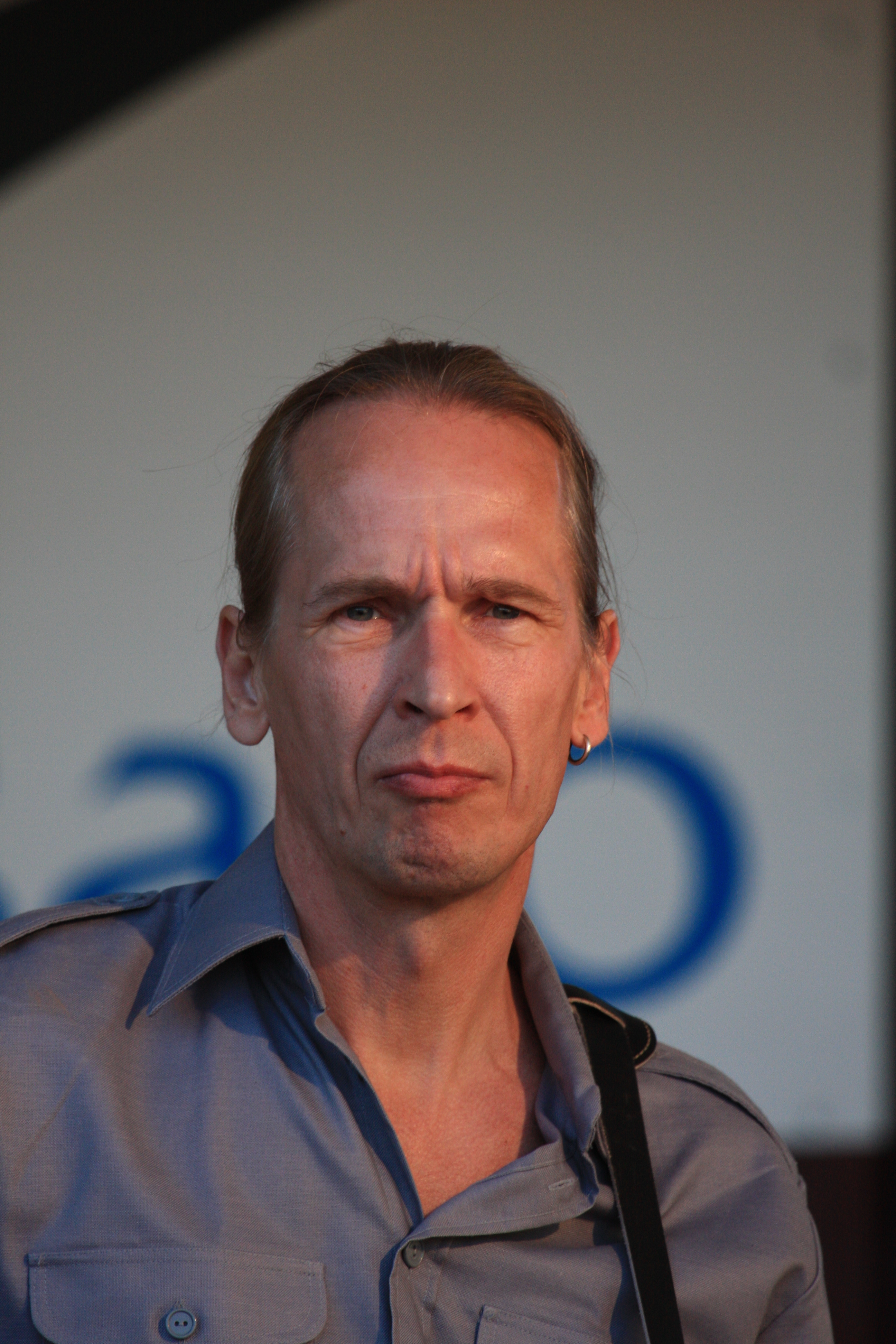 Matti Nurro from Miljoonasade-group